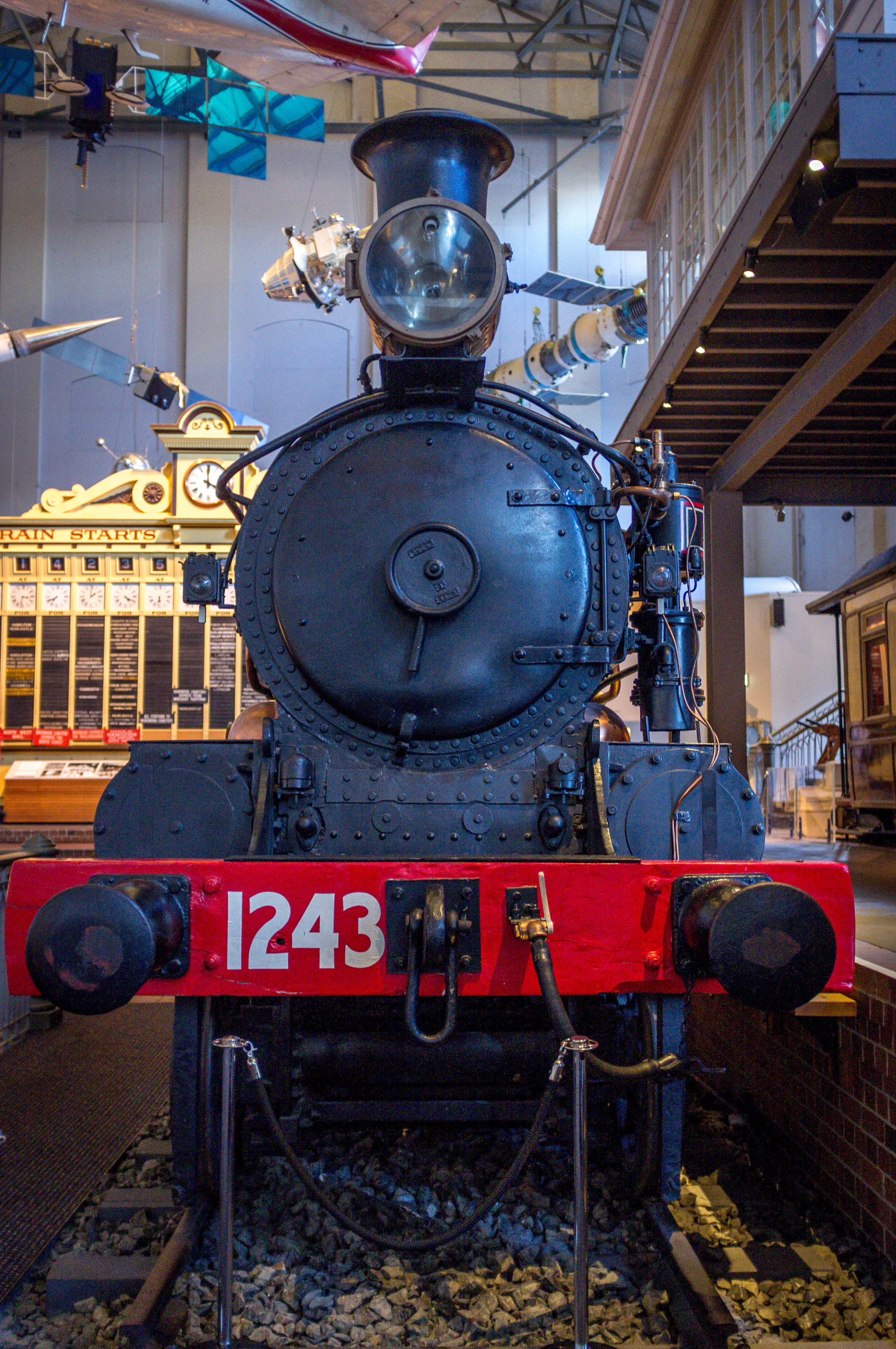 NSWGR Locomotive 1243